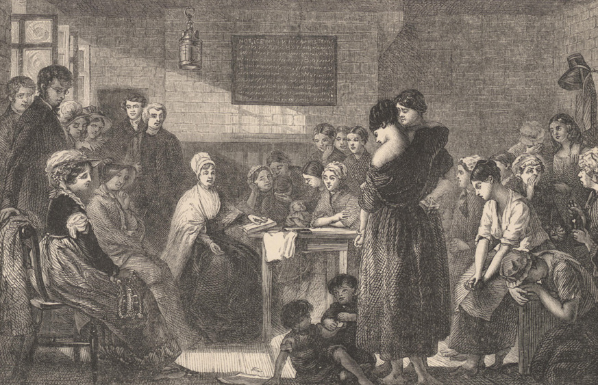 Wood engraving of Elizabeth Gurney Fry reading to prisoners in Newgate Prison, London. Shelfmark: Crime 9 (62) . Processed in PhotoShop (slight rotation to bring upright)